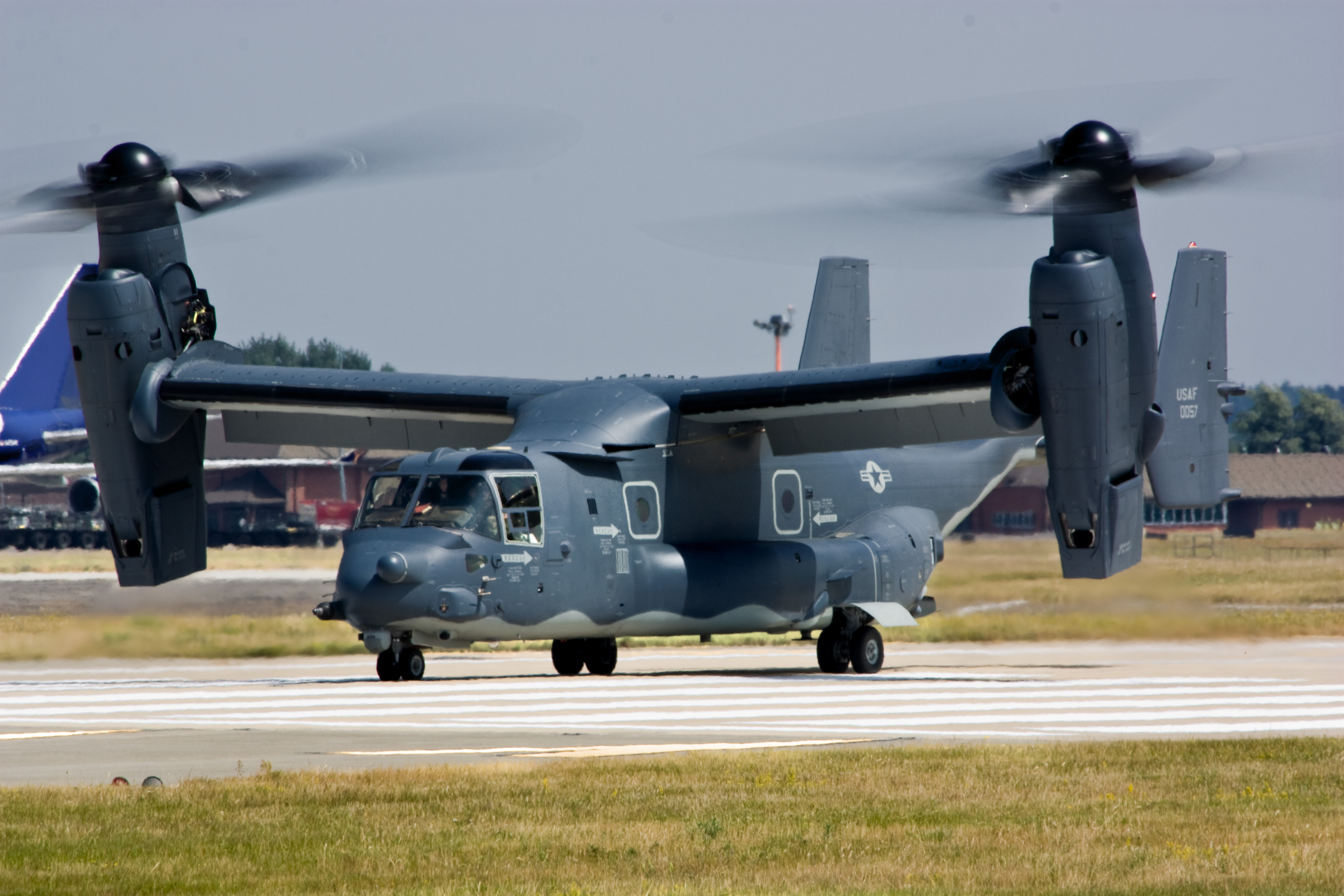 RAF Mildenhall, 17th July 2013